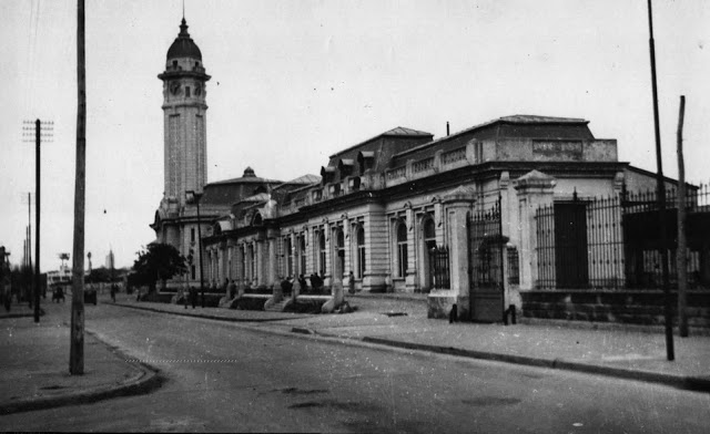 The Rosario bus station while operating as a railway terminal, in the 1930s.